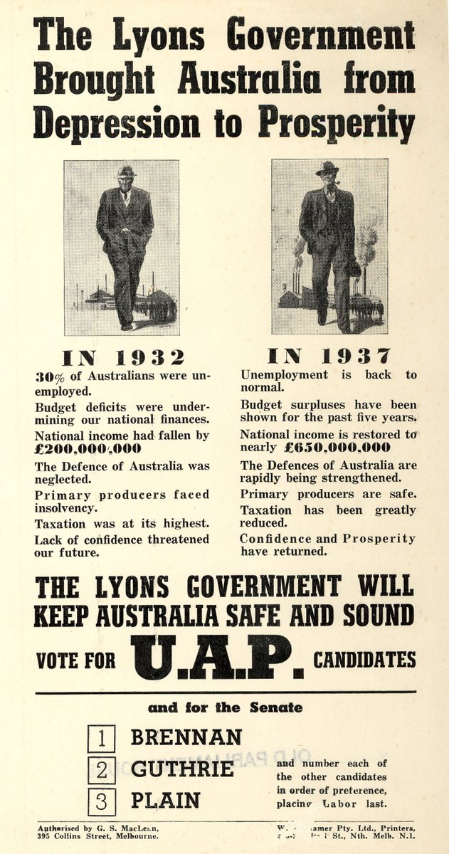 Poster advocating the re-election of the Lyons Government at the 1937 Australian federal election